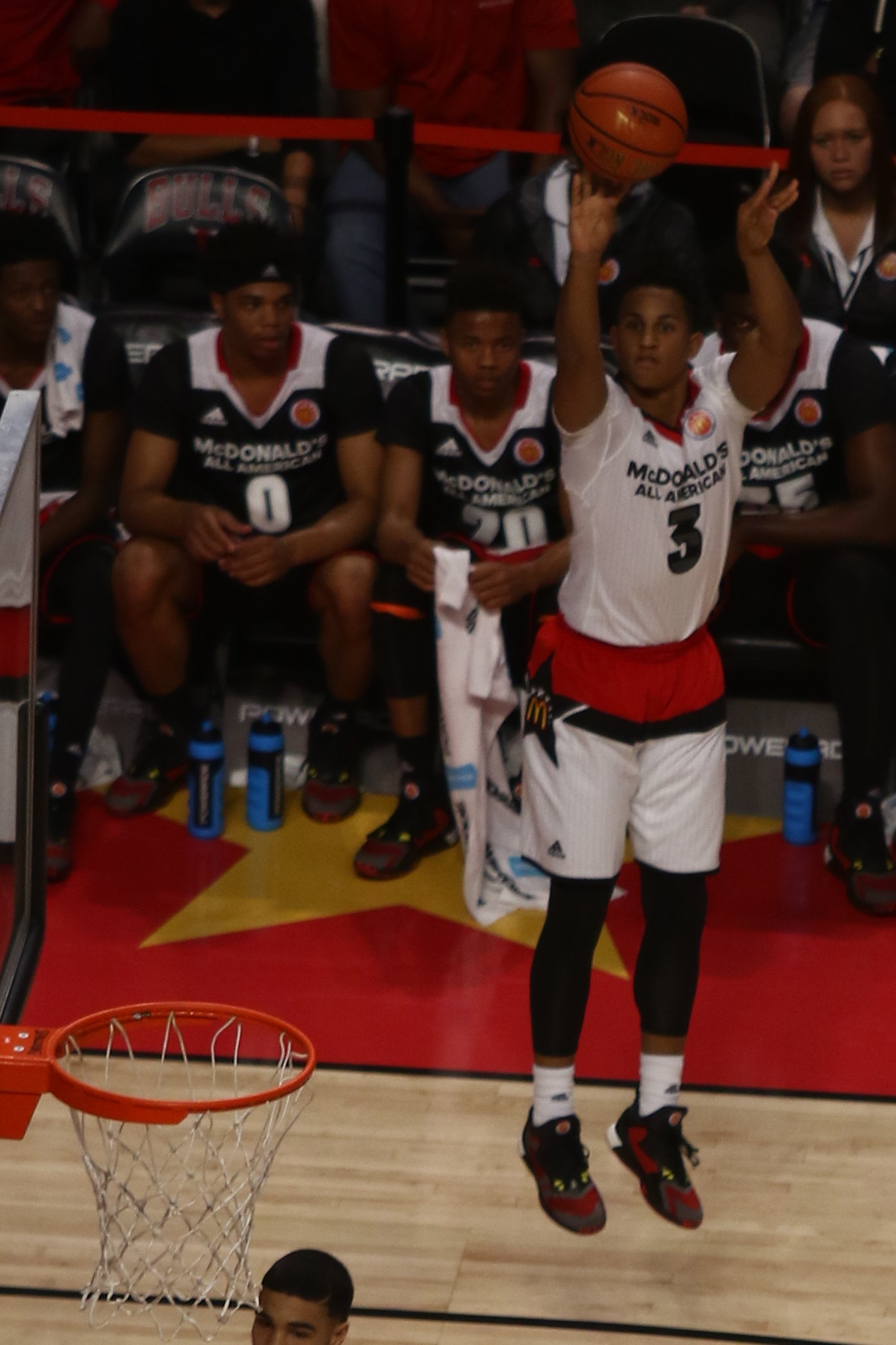 Frank Jackson at the w:2016 McDonald's All-American Boys Game